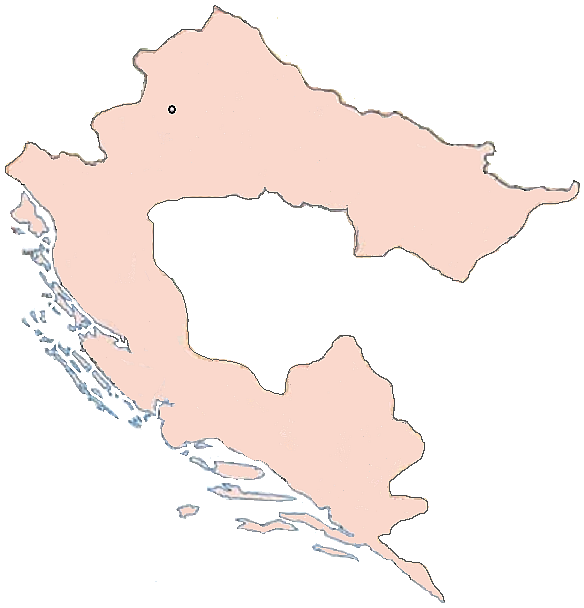 This map has been uploaded by Electionworld from to enable the Wikimedia Atlas of the World . Original uploader to was Thewanderer, known as Thewanderer at . Electionworld is not the creator of this map. Licensing information is below.